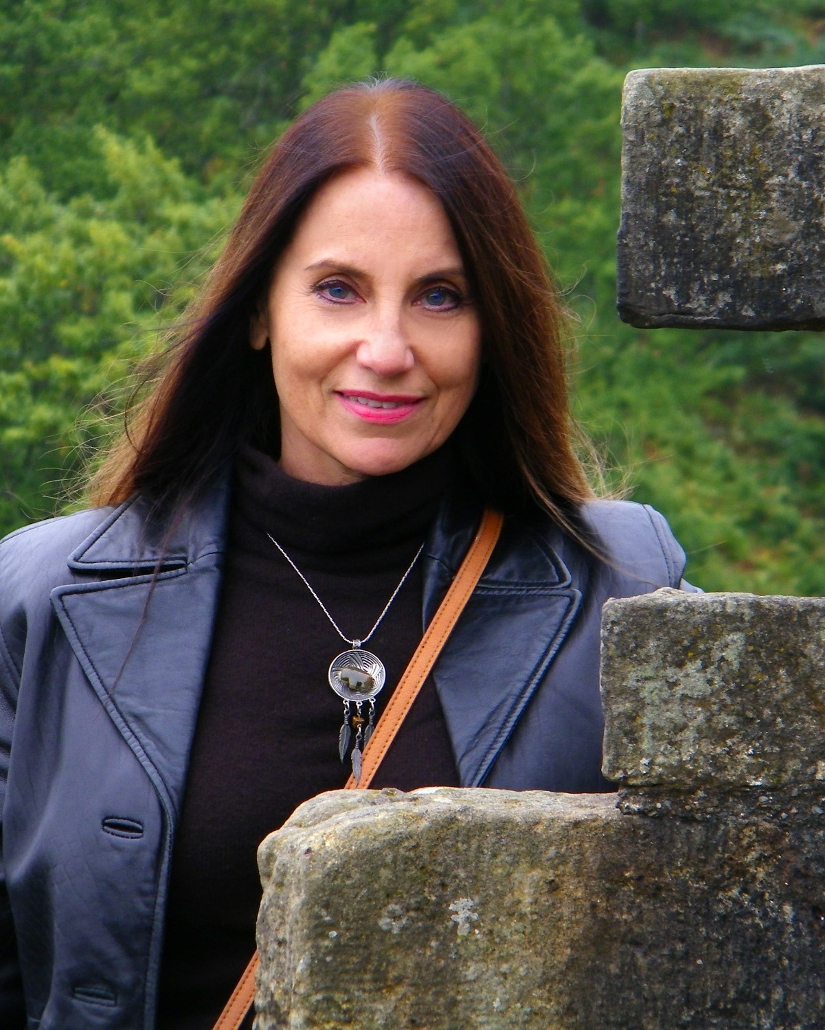 Glynnis Talken Campbell, Digital picture taken at Castle Campbell near the town of Dollar, Clackmannanshire, in central Scotland. while on vacation.